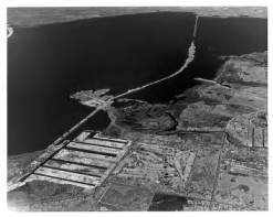 Courtney Campbell Causeway and northeast shore of Old Tampa Bay aerial view Tampa, Fla; 1959. Courtesy, Tampa-Hillsborough County Public Library System.